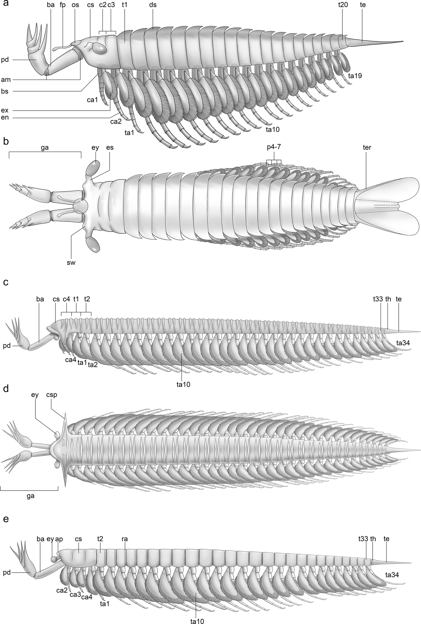 Diagrammatic reconstructions of jianfengiids a, b, Fortiforceps foliosa, lateral and dorsal views, respectively. c, d, Sklerolibyon maomima gen. et sp. nov, lateral and dorsal views, respectively. The telson of Sklerolibyon is hypothesized based on the morphology of Jianfengia. e, Jianfengia multisegmentalis, morph from Daipotou with 27 trunk somites, lateral view. Drawings by Dinghua Yang